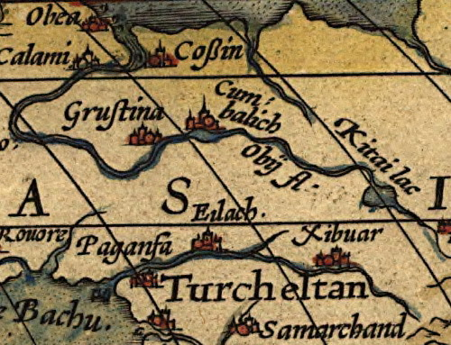 The fragment of the 1570 world map created by Abraham Ortelius, which is showing the disappeared city Grustina in Siberia.